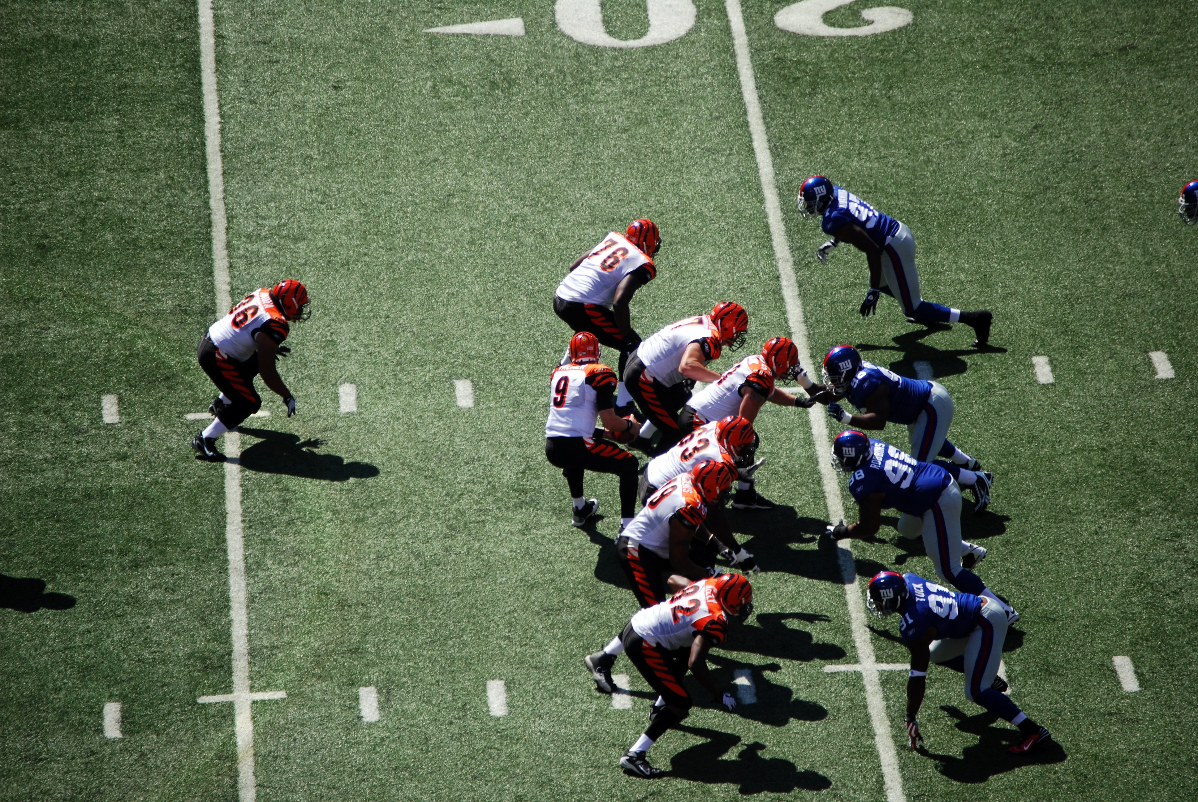 The New York Giants in a December 2008 game against the Cincinnati Bengals.